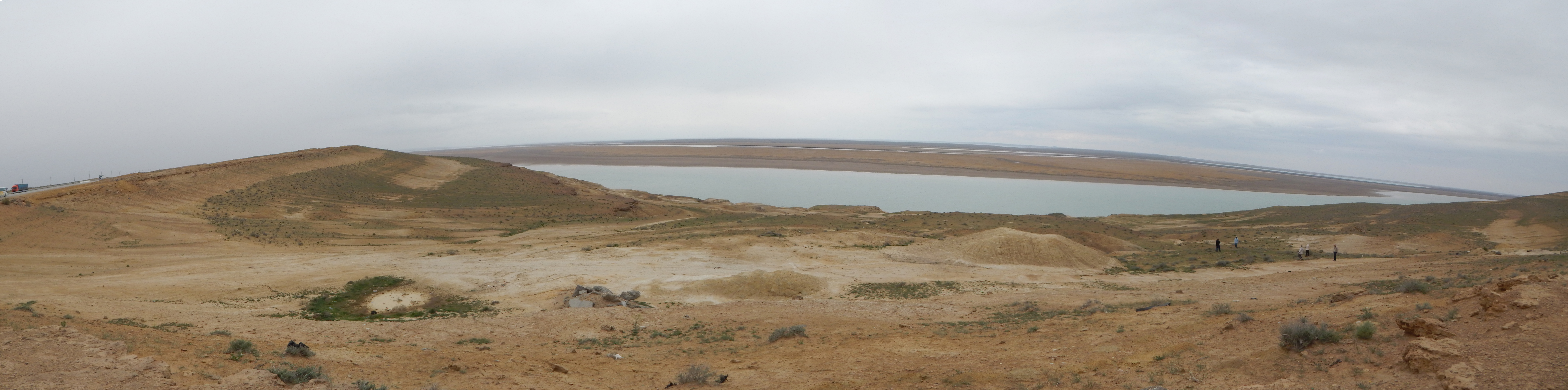 A panorama of Amu Darya River in Uzbekistan (photo was taken between Bukhara and Urgench)